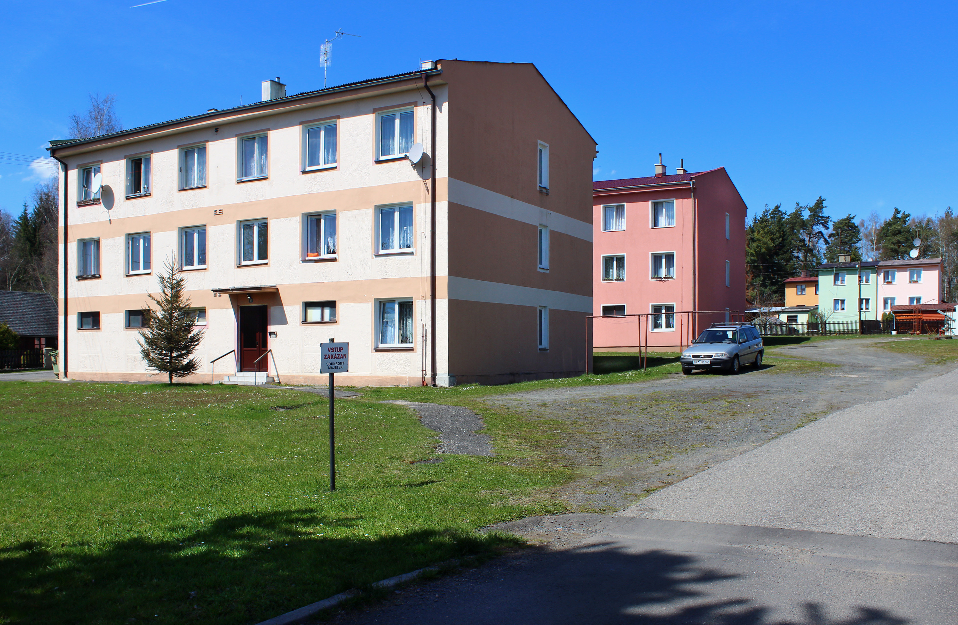 Lower part of Pila village, Czech Republic